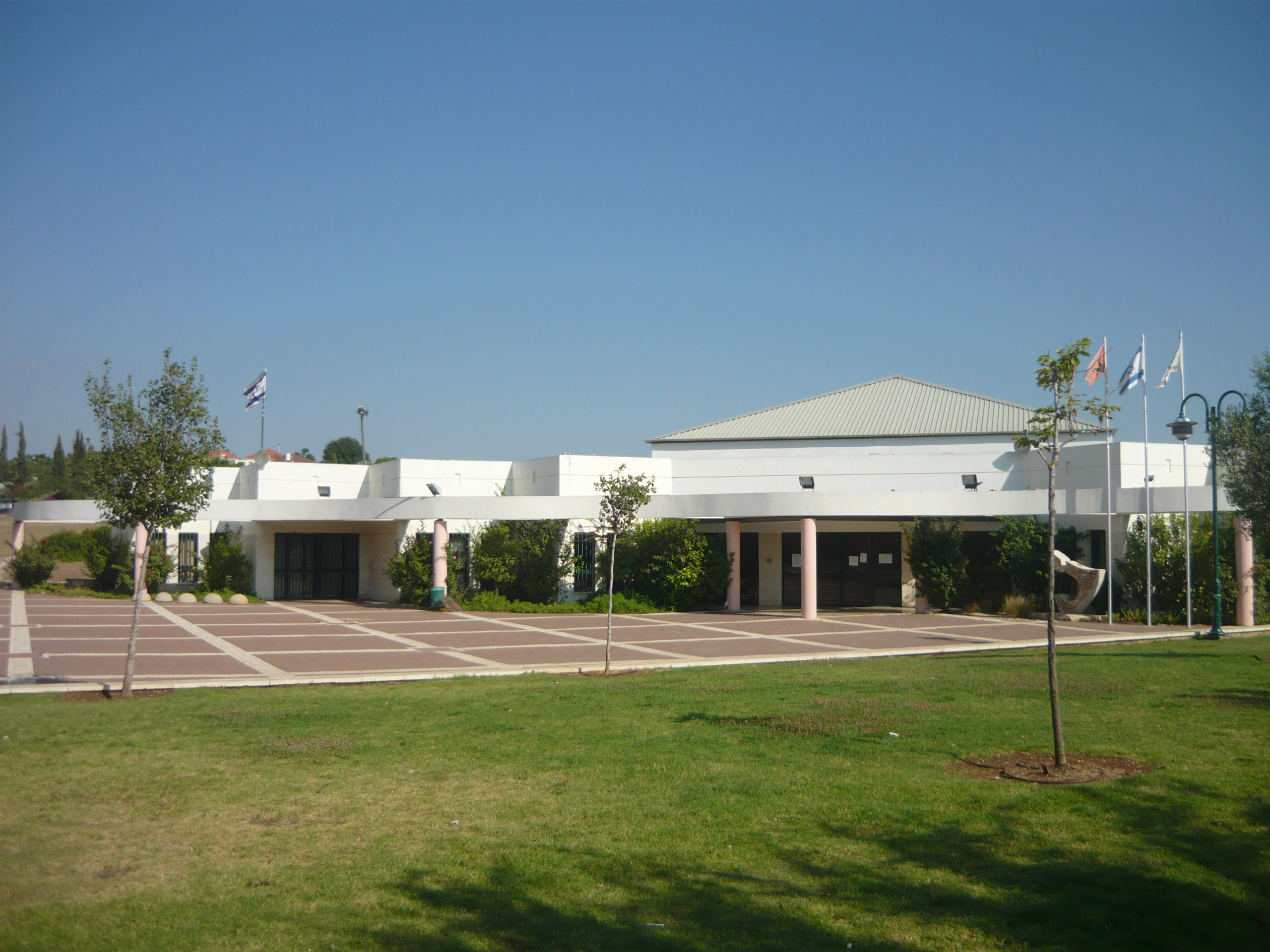 mizpe adi מבנה ציבור במצפה עדי